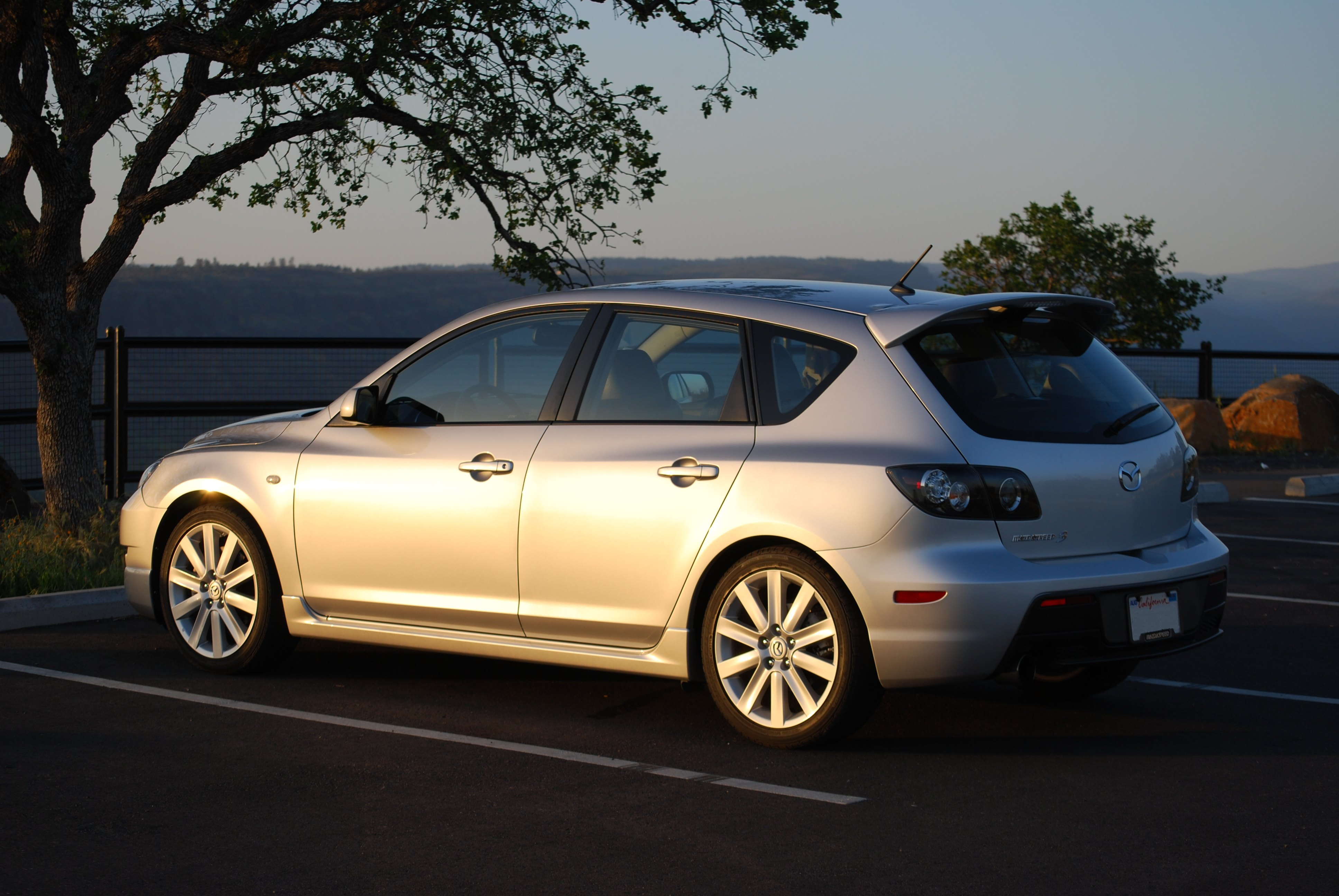 2008 Mazdaspeed3 on Skyway lookout point in Northern California